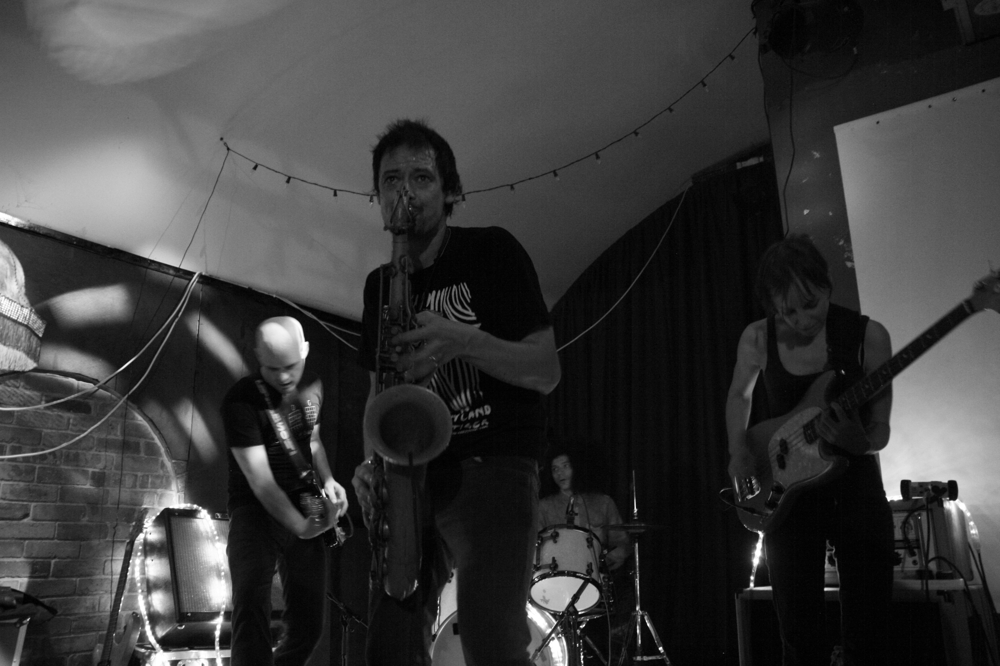 Acoustic Ladyland live at the Taylor John's House, Coventry, 20 June 2009.